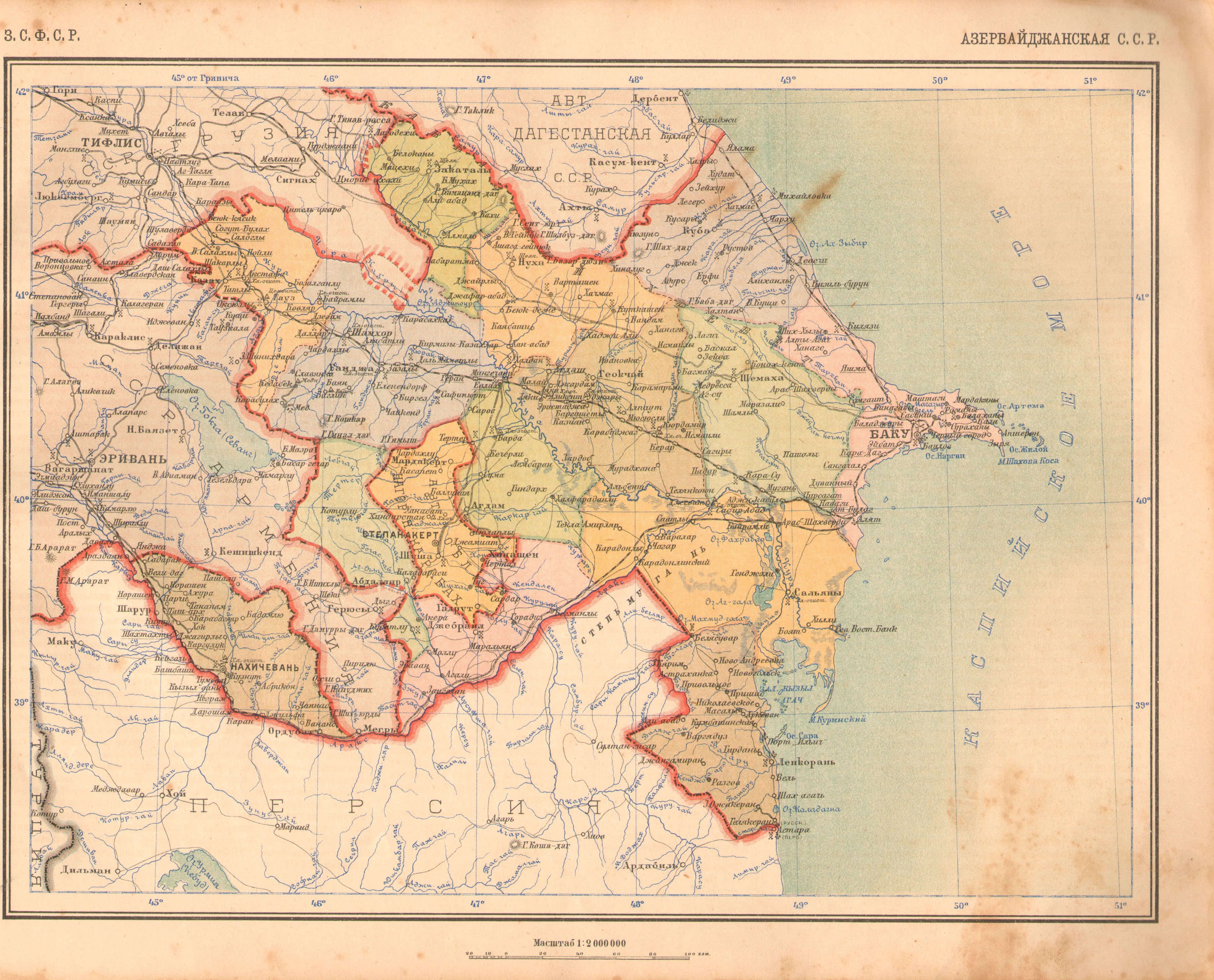 Map of Azerbaijan SSR from the Atlas of 1928